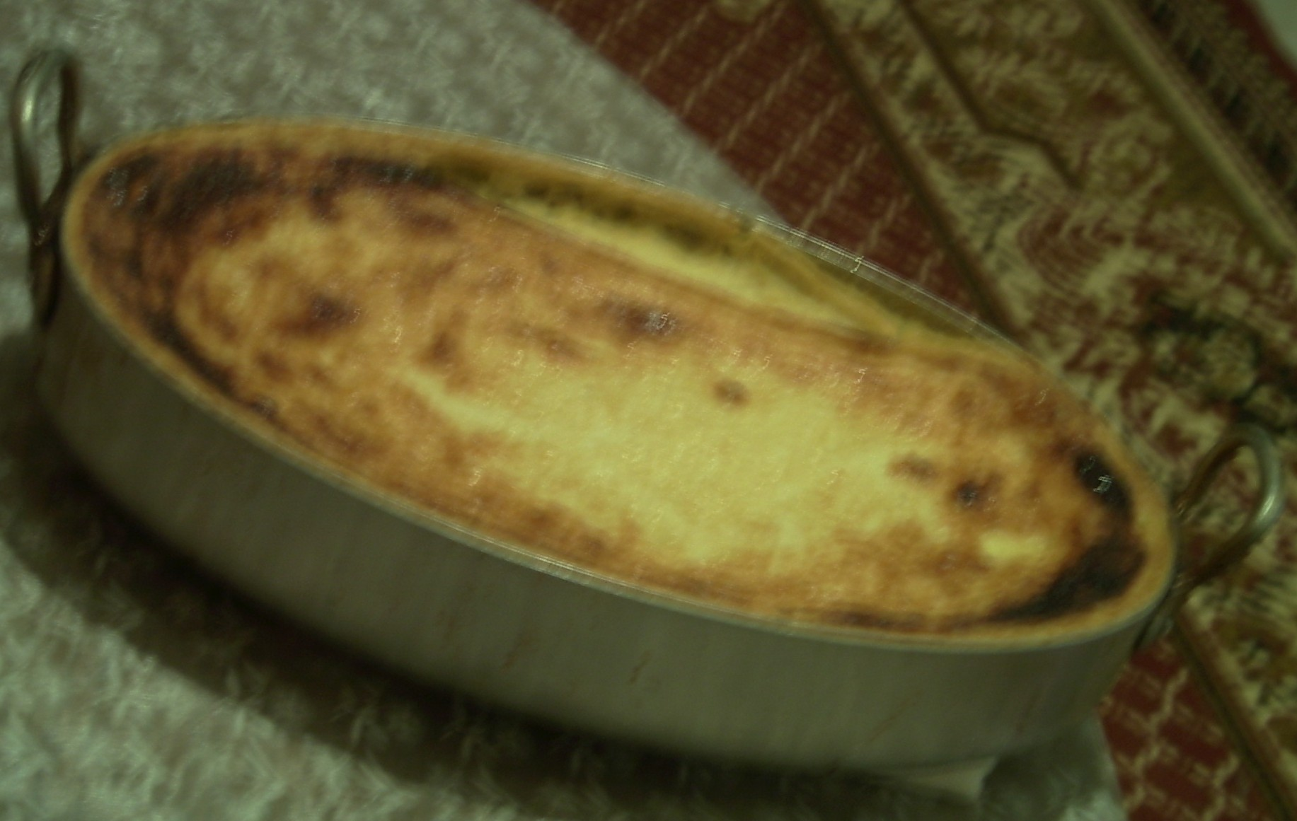 Popular food in Oujda city